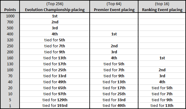 A table displaying how many points players can gain in the 2017 Capcom Pro Tour per tournament type.